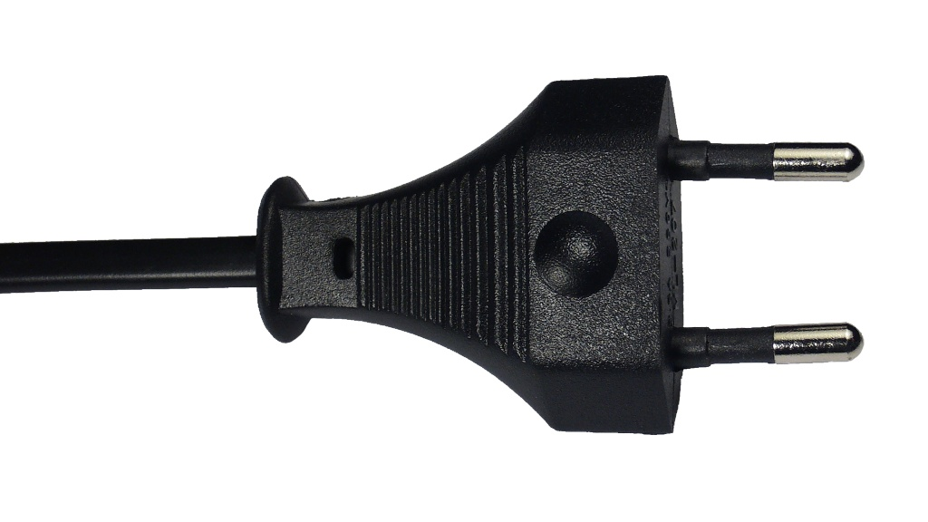 Flat implementation (CEE 7/16) of the europlug.